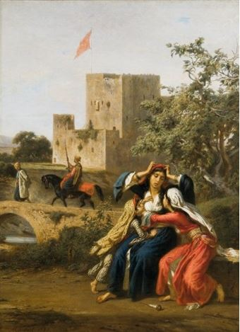 Woman whose son has just been taken for Conscription (Syria)